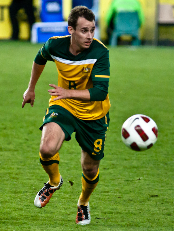 Luke Wilkshire representing the Australian national football team against Paraguay at the Sydney Football Stadium.